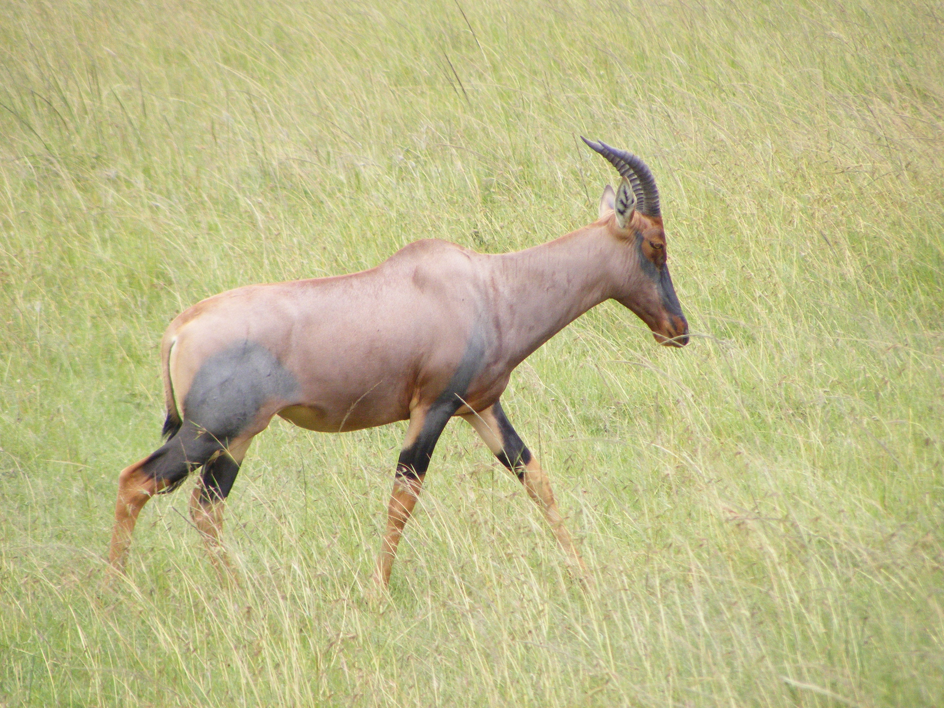 Topi